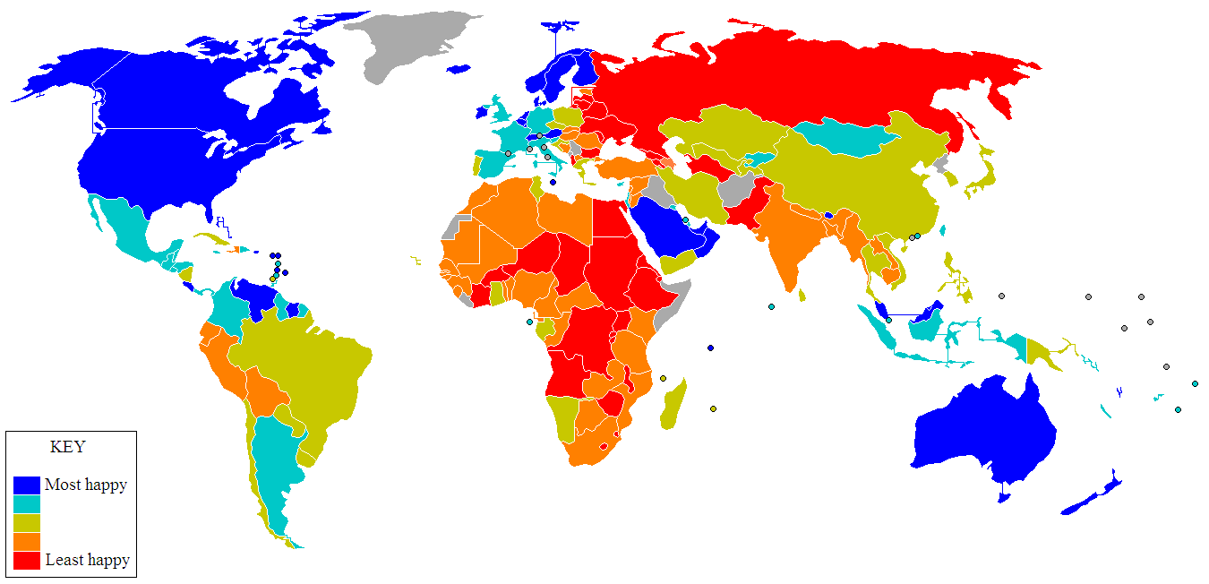 Satisfaction with Life Index Map - Map was published in White, A. G.(2007). A Global Projection of Subjective Well-being: A Challenge To Positive Psychology? Psychtalk 56, 17-20. Map colored according to The World Map of Happiness, Adrian White, Analytic Social Psychologist, University of Leicester. "The data on SWB [Subjective Well-Being] was extracted from a meta-analysis by Marks, Abdallah, Simms & Thompson (2006)."